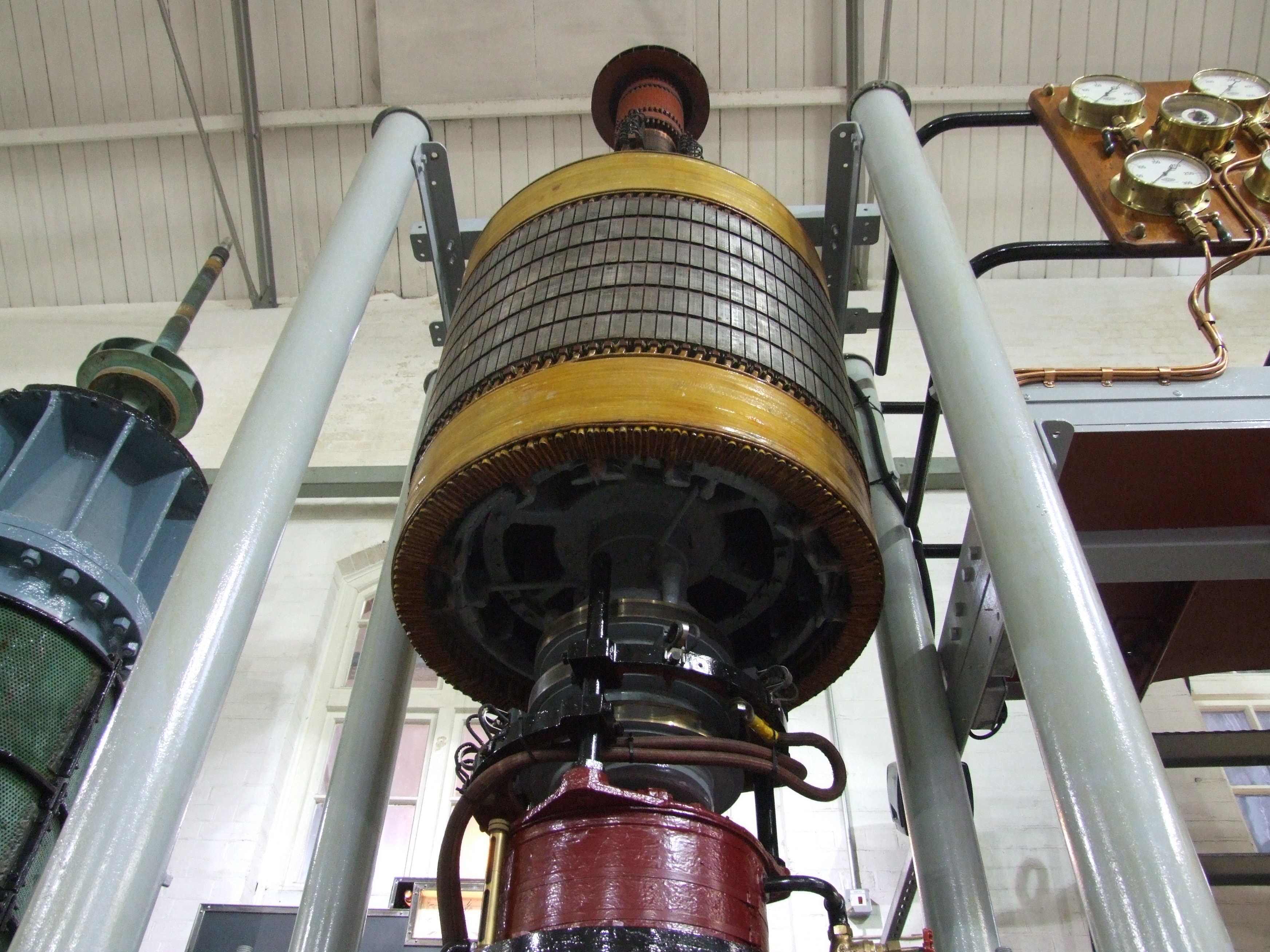 Communications Satellite ready for launch?...No it is the giant rotor of an electric water pump dissasembled at Brede to show its inner workings. The slip rings for its current supply may be seen beneath the rotor drum